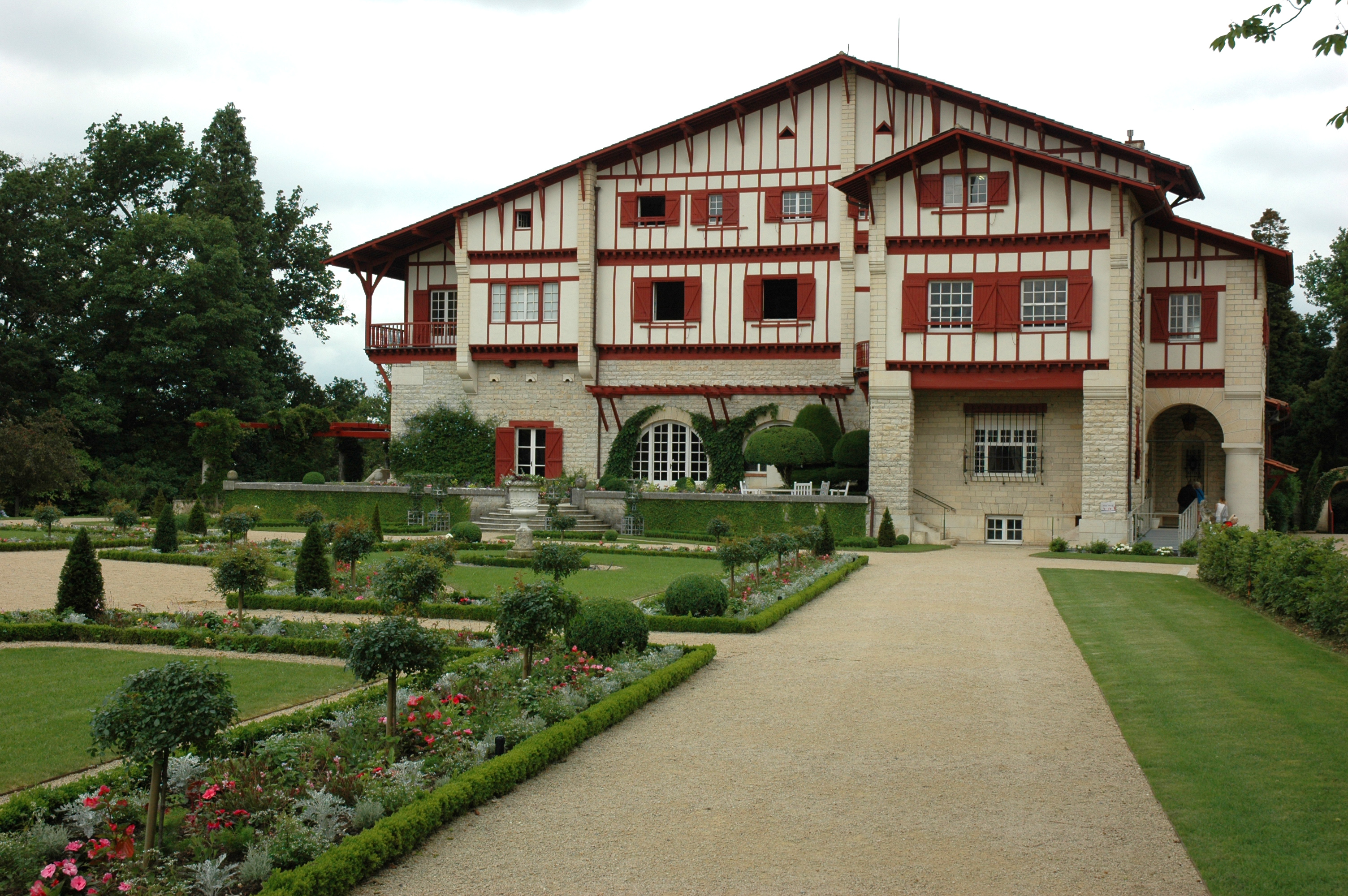 Villa Arnaga